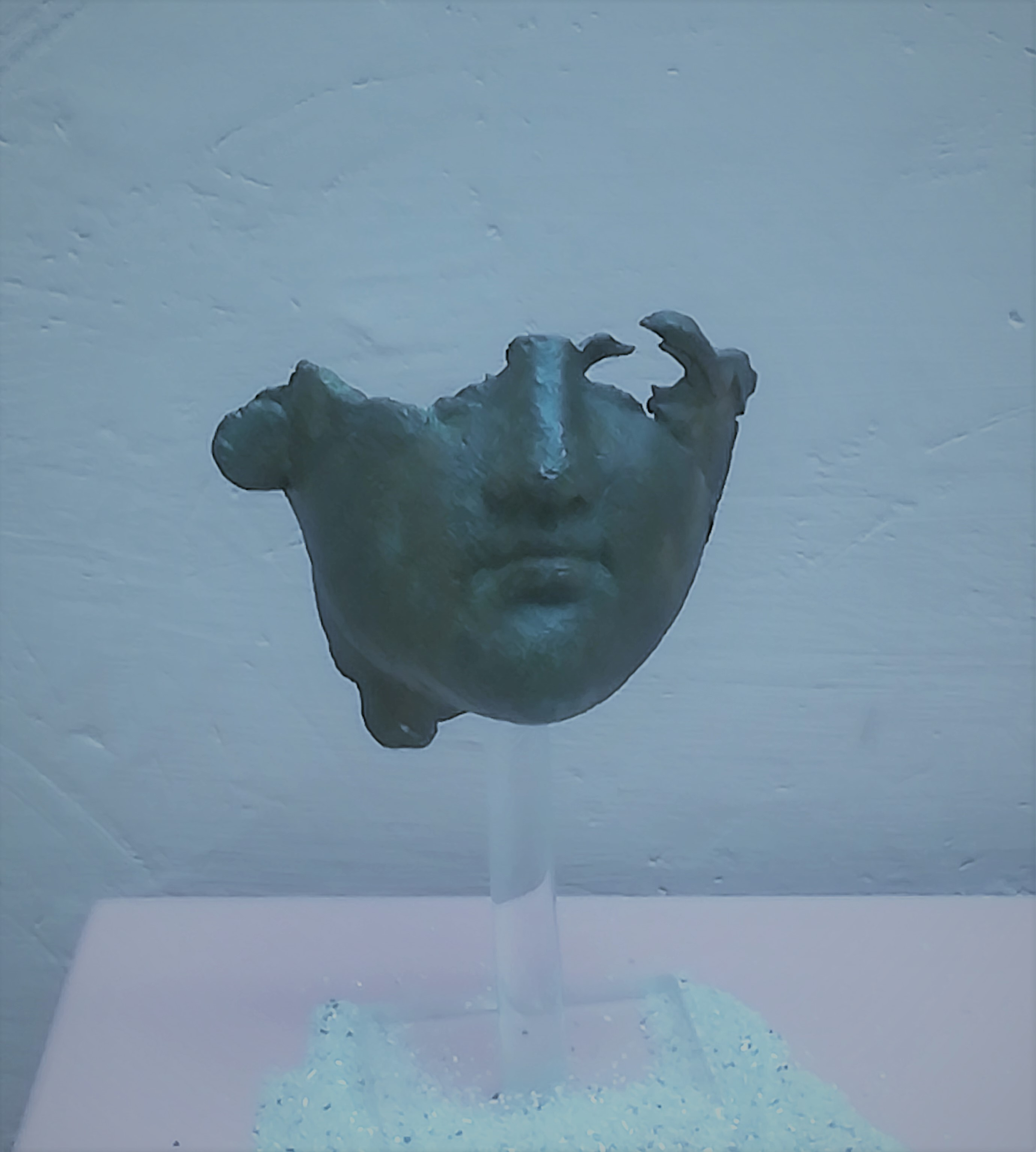 Face of the goddes Mefitis, bronze fragment stored in the Museo Archeologico Nazionale della Basilicata (National Archaeological Museum of Basilicata), Potenza.